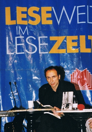 Bookfair Frankfurt 2002 - Dimitré Dinev